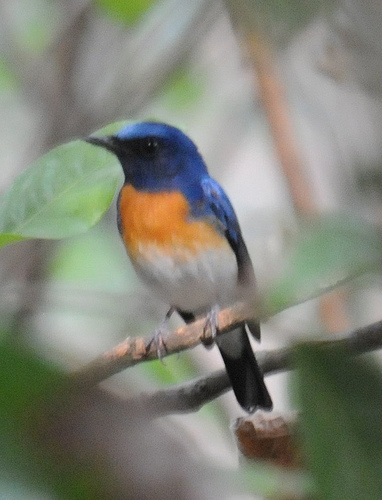 Blue throated flycatcher from Thattekadu bird sanctuary Kerala, India.